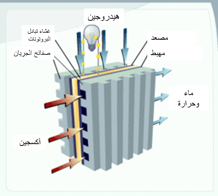 PEM Fuel Cell in Arabic